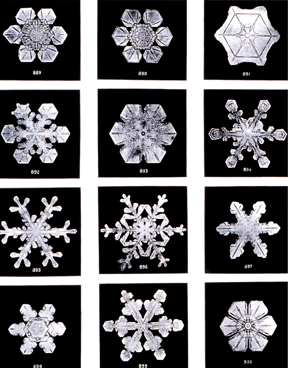 Snow flakes by Wilson Bentley. Bentley was a bachelor farmer whose hobby was photographing snow flakes. ; Image ID: wea02087, Historic NWS Collection ; Location: Jericho, Vermont ; Photo Date: 1902 Winter